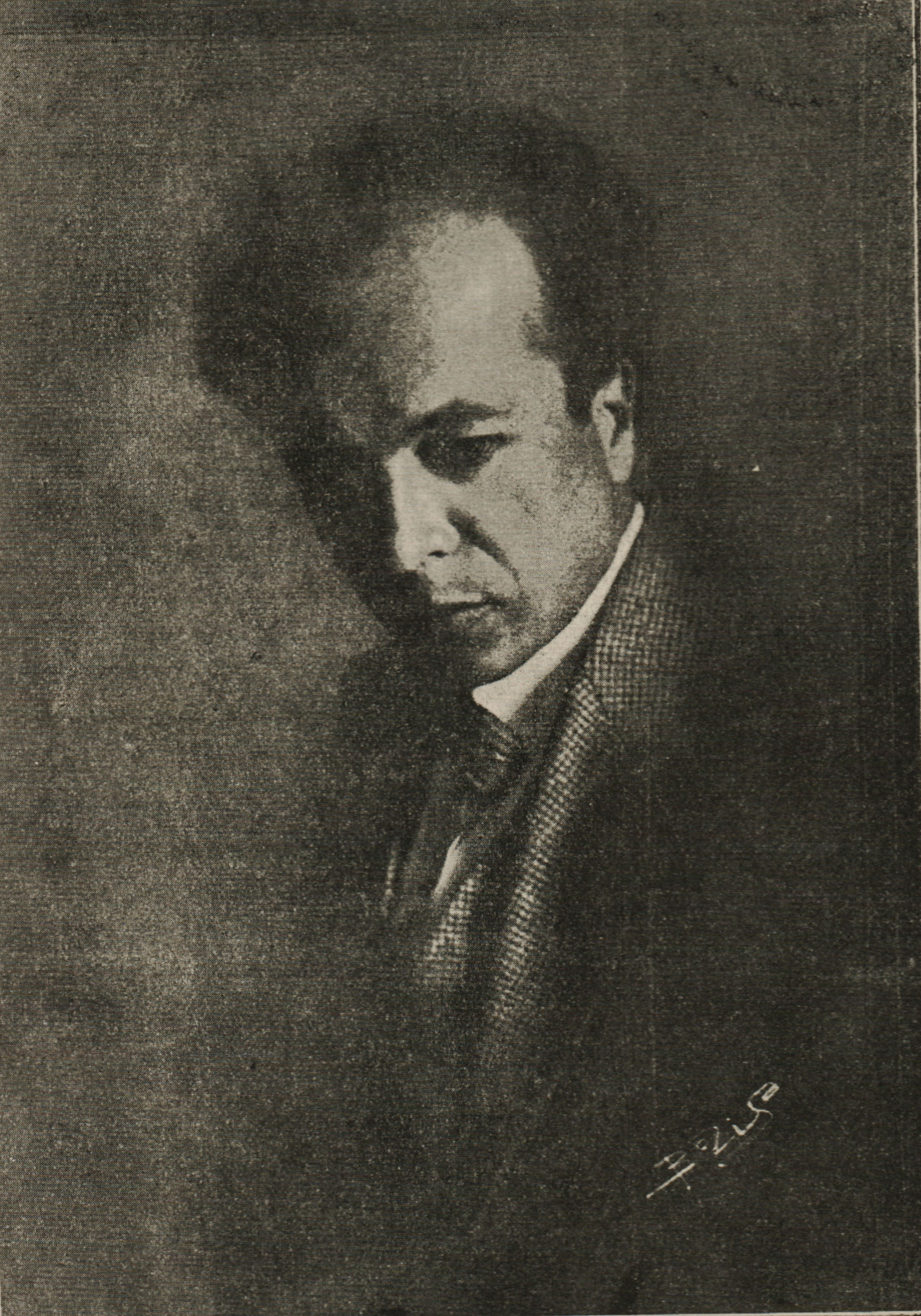 Bulgarian poet Ivan Yonchev